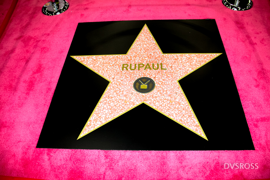 RuPaul's Star on the Hollywood Walk of Fame at RuPaul's Dragcon